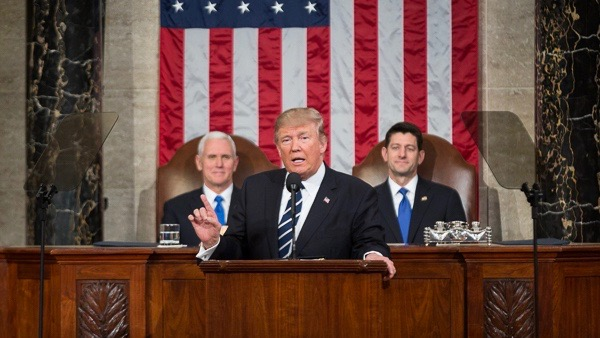 President Donald Trump delivering an address to a joint session of the U.S. Congress on February 28, 2017.